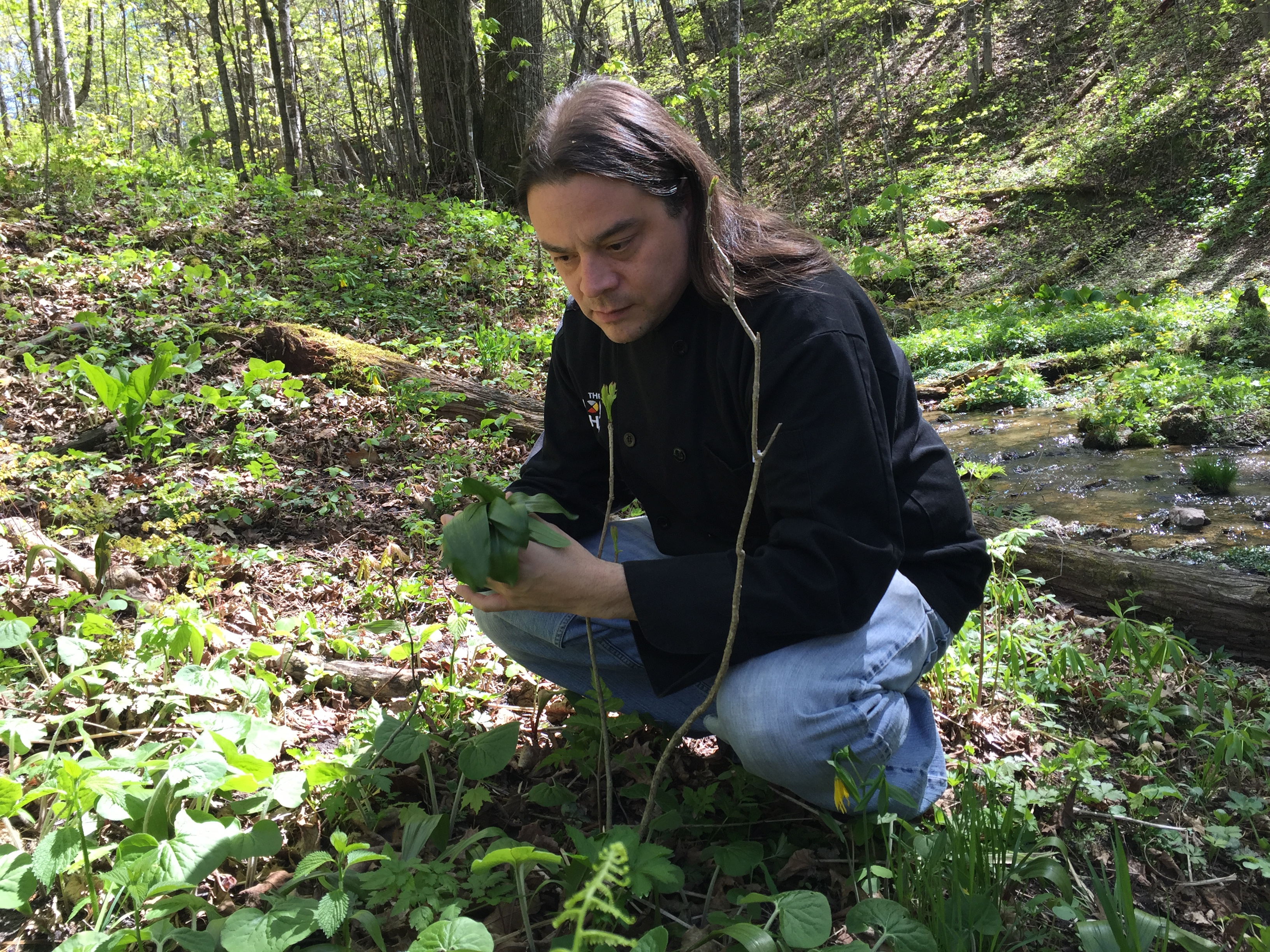 Chef Sean Sherman, Oglala Lakota, born in Pine Ridge, SD, has been cooking across the US and Mexico over the past 30 years, and has become renowned nationally and internationally in the culinary movement of indigenous foods. His main focus has been on the revitalization and evolution of indigenous foods systems throughout North America. Chef Sean has studied on his own extensively to determine the foundations of these food systems to gain a full understanding of bringing back a sense of Native American cuisine to today’s world. In 2014, he opened the business titled, The Sioux Chef as a caterer and food educator in the Minneapolis/Saint Paul area. He and his business partner Dana Thompson also designed and opened the Tatanka Truck, which featured pre-contact foods of the Dakota and Minnesota territories.